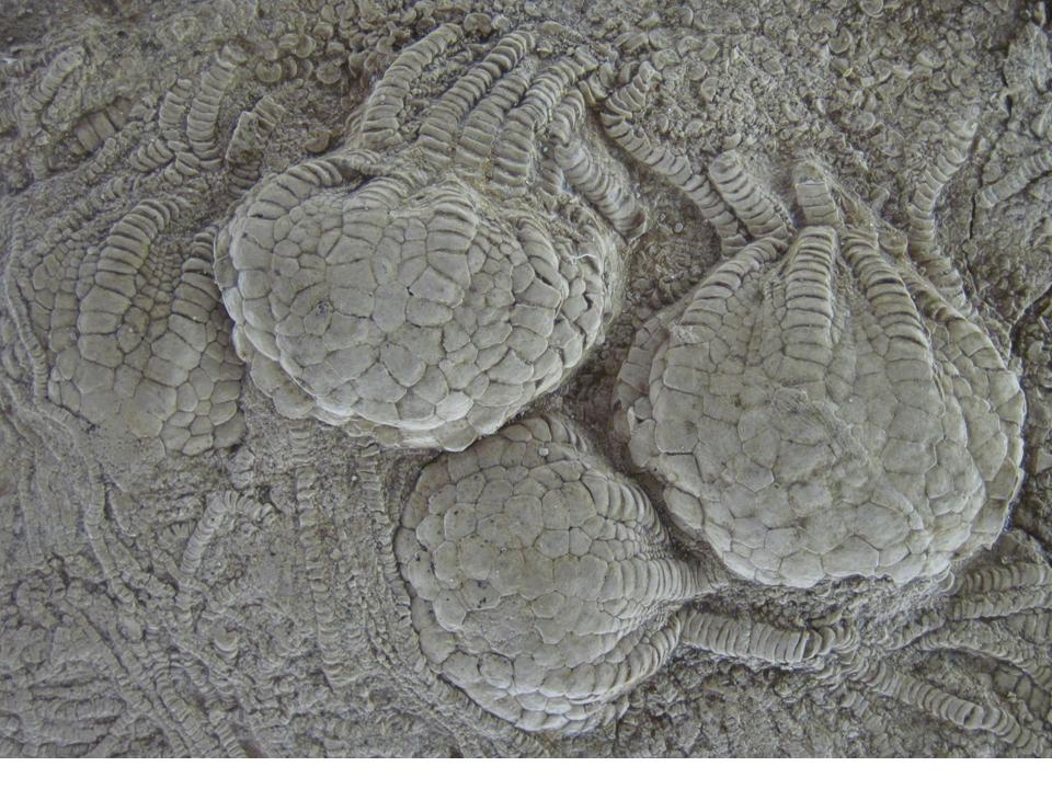 From the Niobrara Formation during the Upper Cretaceous in Western Kansas, US, Uintacrinus socialis Grinnell